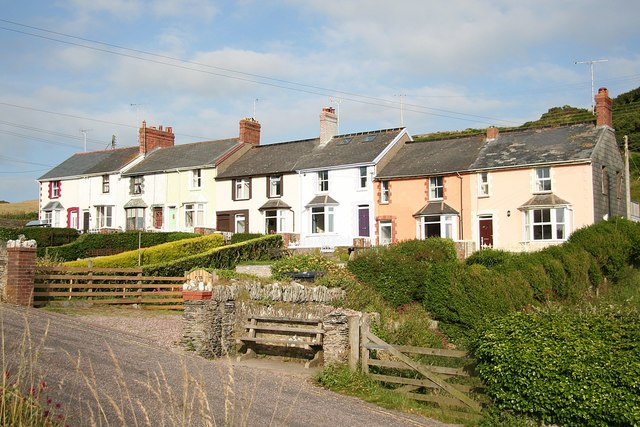 Ada's Cottages Attractive row of cottages at Mortehoe built by a Mr.Sanders of Barnstaple and named after his daughter